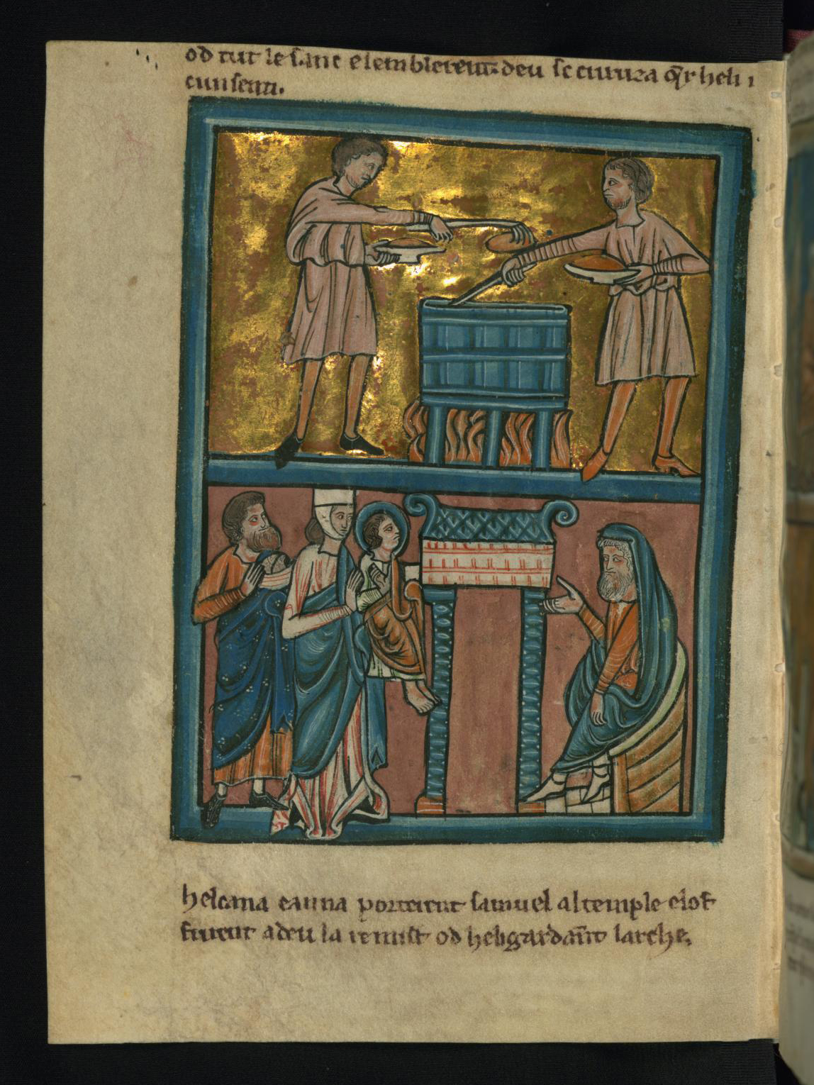 This page from Walters manuscript W.106 depicts scenes from the story of Samuel. Top: The priest Eli's sons Hophni and Phinehas were also priests at the temple, and they took sacrifices that had been made at teh temple before the fat had been burned; they wanted it raw. The sin that they committed was very great in the eyes of God. Bottom: When Samuel was weaned, Hannah and Elkanah brought him to the temple.